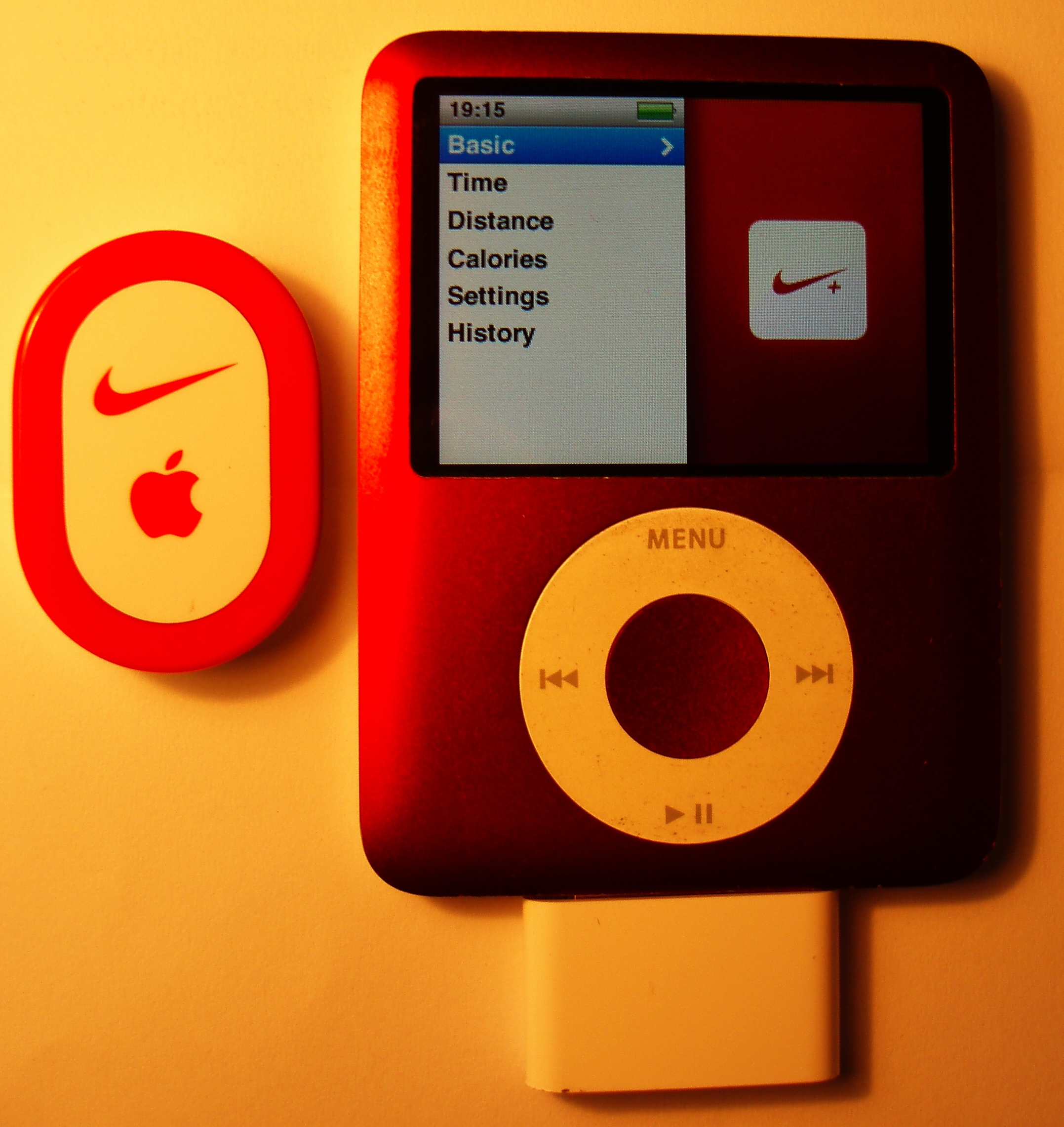 3G iPod with Nike+ reciever attached and transmitter next to it